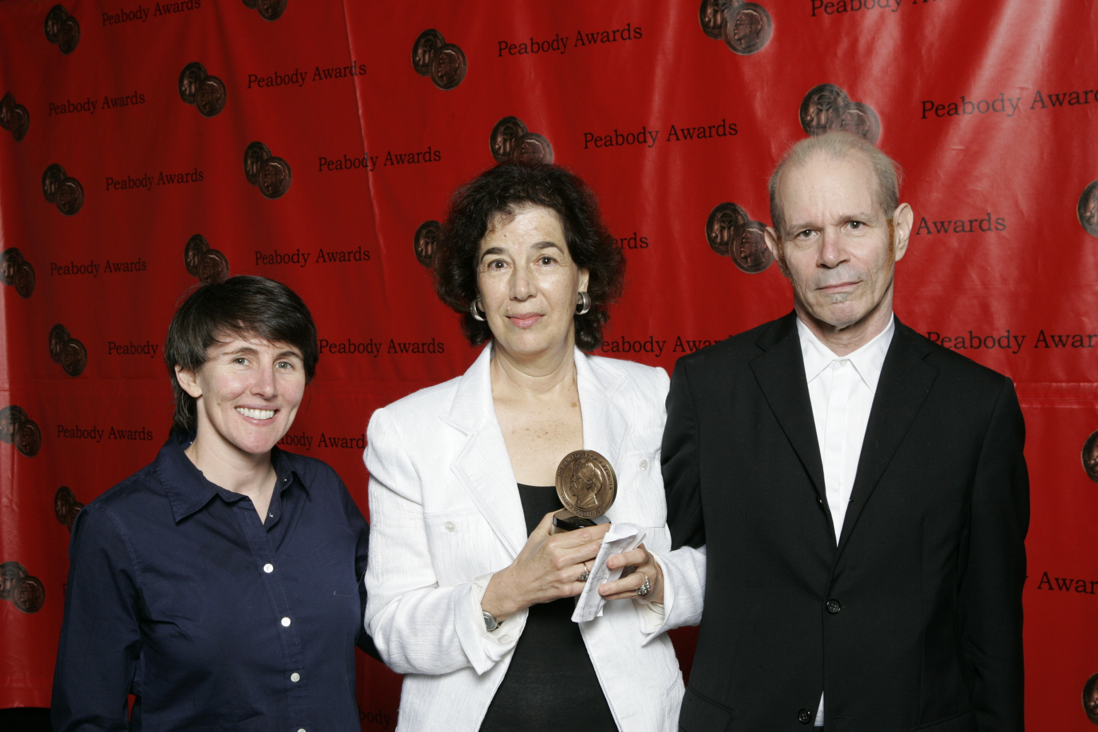 Lizzie Donahue, Susan Sollins and Charles Atlas 67th Annual Peabody Awards Luncheon Waldorf=Astoria Hotel New York, NY USA June 16, 2008